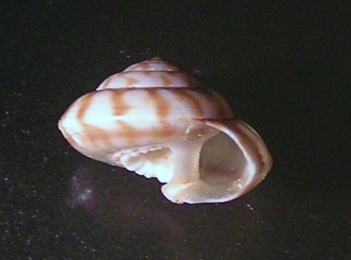 Psilaxis oxytropis A. Adams, 1854, a sea snail from the family Architectonicidae; Philippines